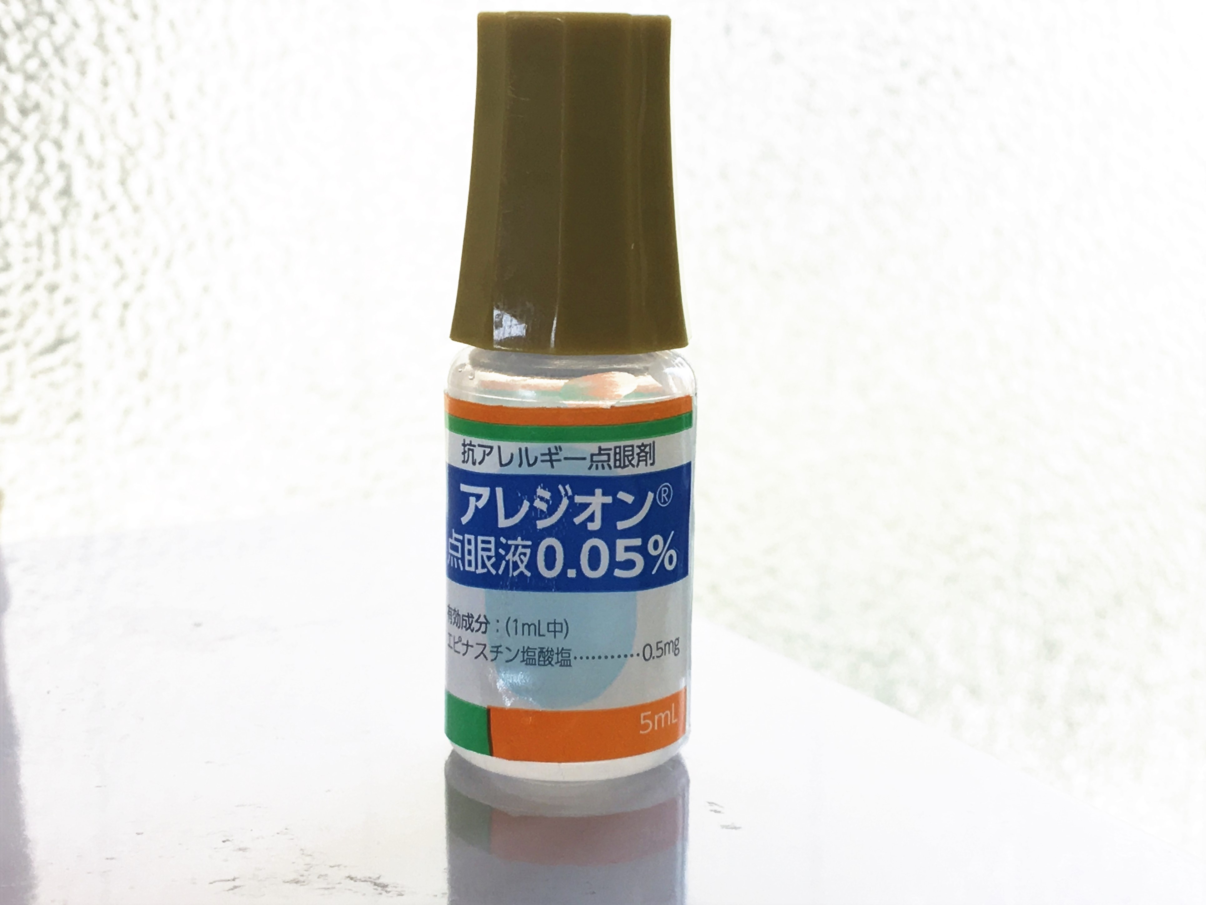 Epinastine eye drop 2016 japan